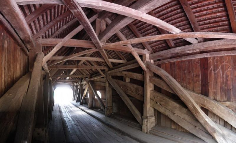 Inside view of covered bridge built by Johannes Grubenmann in Oberglatt